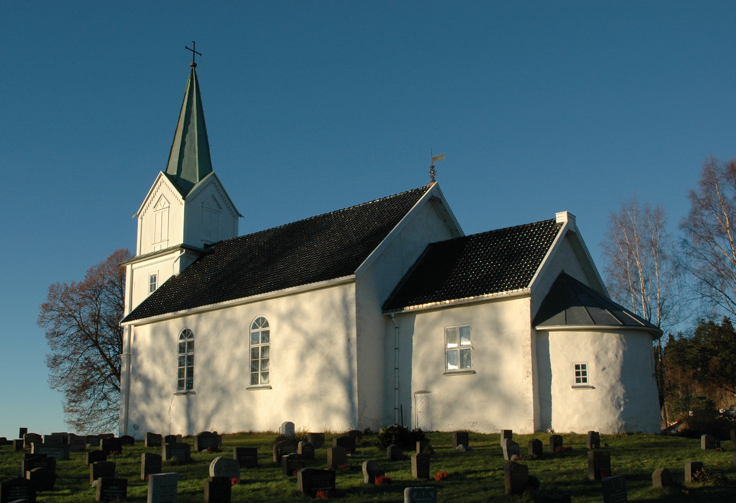 The church Hurum kirke in Norway. It dates from 1150.